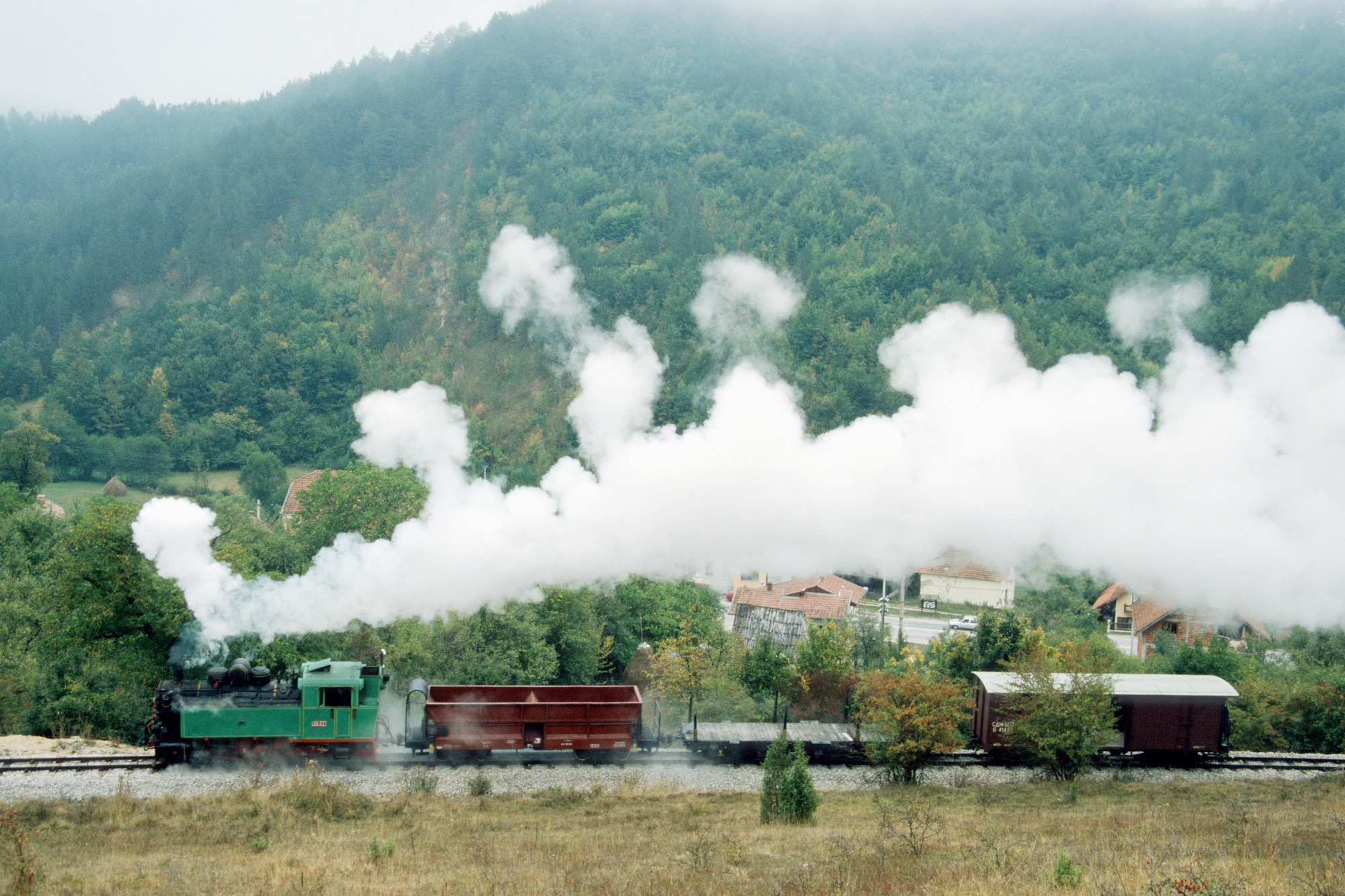 Industrial tank engine 25-27 with a short goods train on the rebuilt tracks at Kotroman between Mokra Gora and the border to Bosnia-Hercegovina.